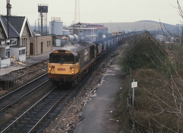 Coal on the move through Shirebrook You will not see many coal trains these days through Shirebrook. Since this picture was taken most of the local mines have shut. The railway has reopened to passengers and trains run to Nottingham from Worksop. The railway depot in the background has long shut with staff moving to Worksop. The class 58 locomotives are also long gone.